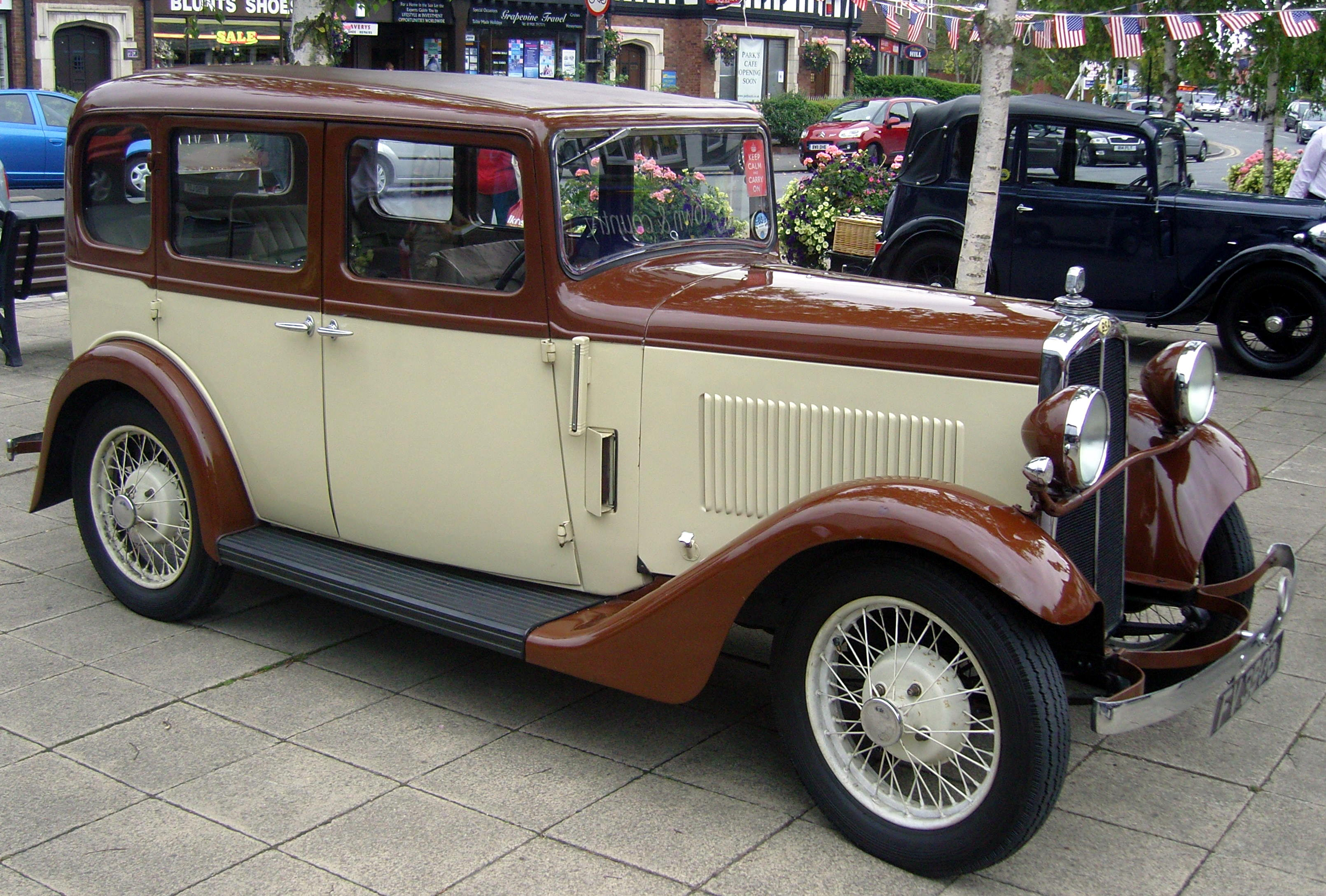 (DVLA) 1056cc first reg 10 August 1933 This photo was taken on September 10, 2011 in Droitwich, England, GB, using a Samsung VLUU NV10, NV10. Photo ref; SNC16293